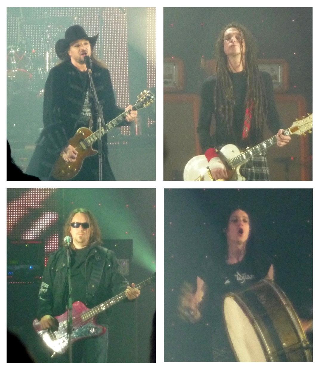 Czech rock band Wanastowi Vjecy performing live in Brno.